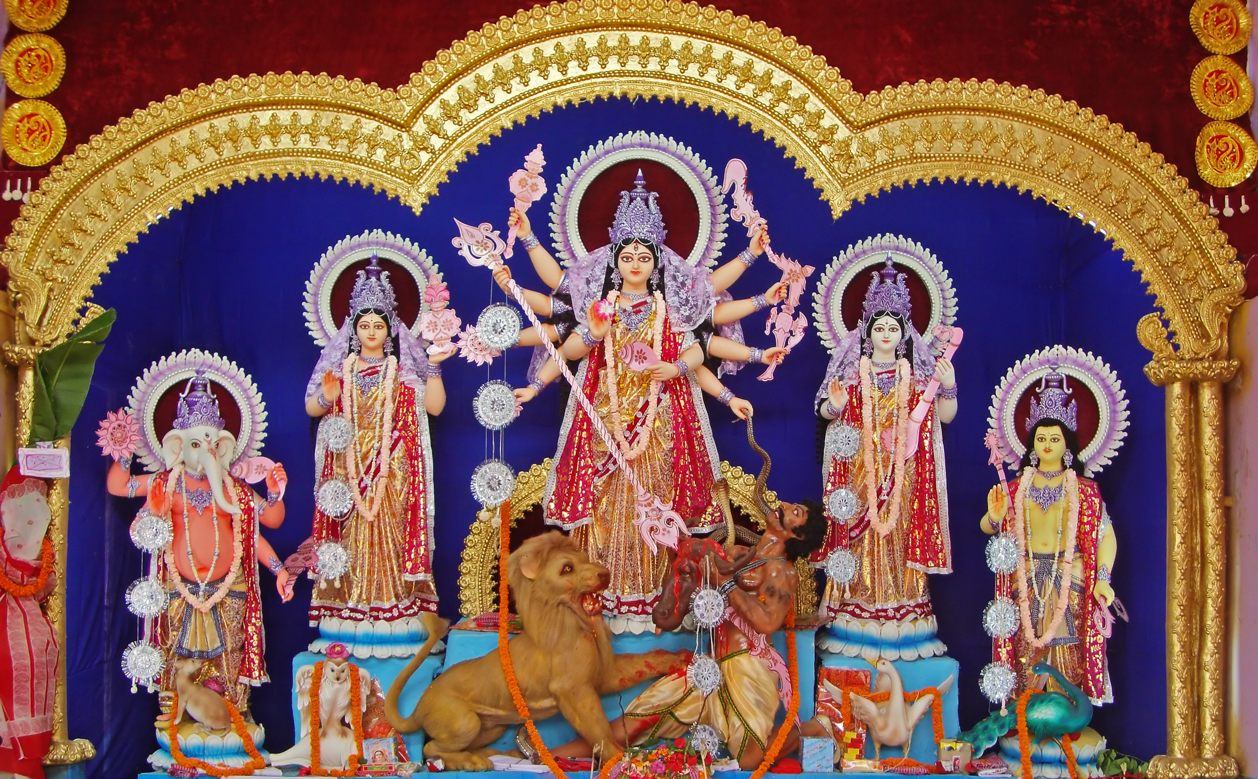 Durga idol during Durga Puja 2011 in a temple at Burdwan. Durga Puja is an annual Hindu festival that celebrates worship of the Hindu goddess Durga.